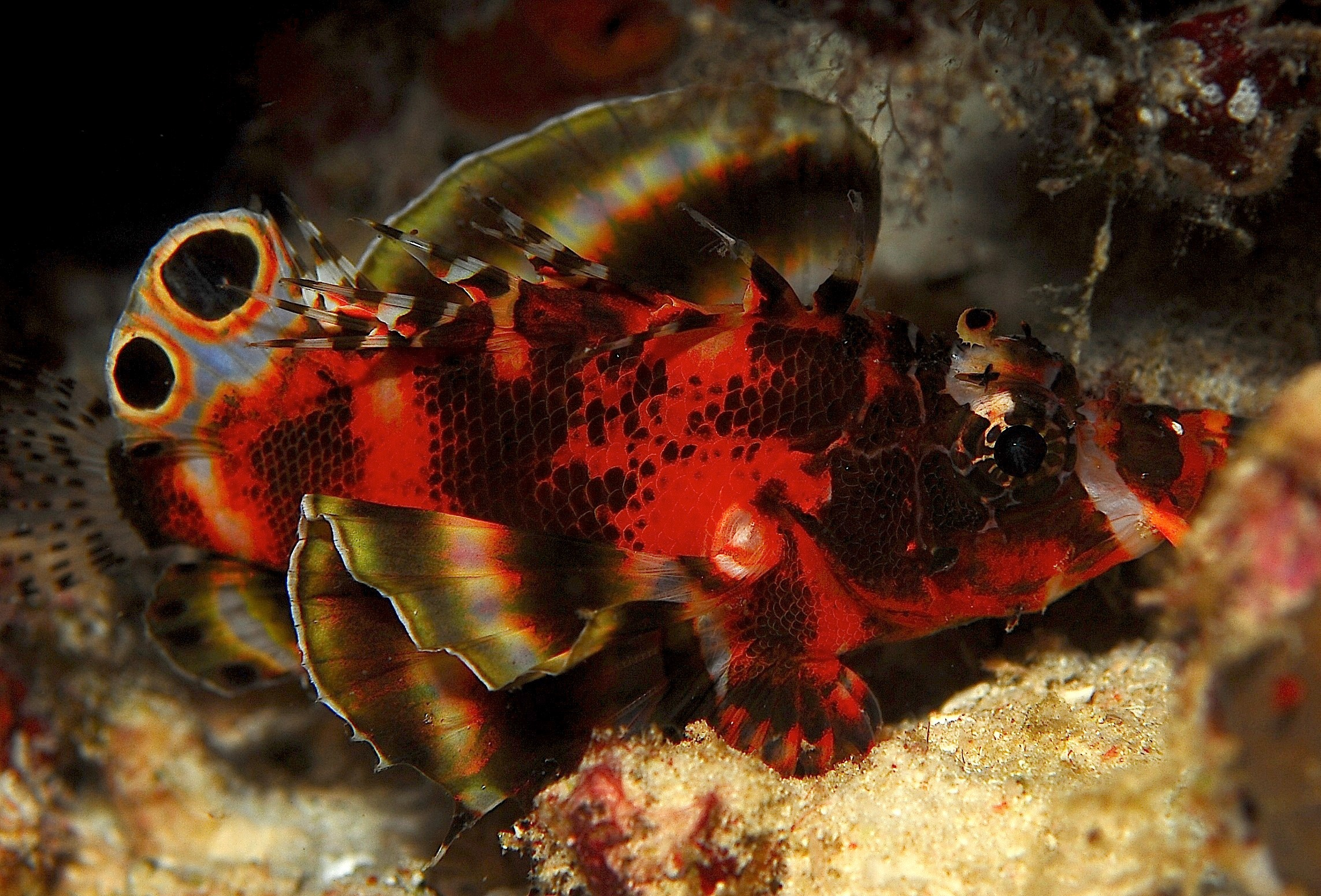 'Two-eyed Lionfish' On Black (Dendrochirus biocellatus) This is an uncommon beautiful species,whose shape is quite difficult to make out underwater. Extremely shy and always hiding.